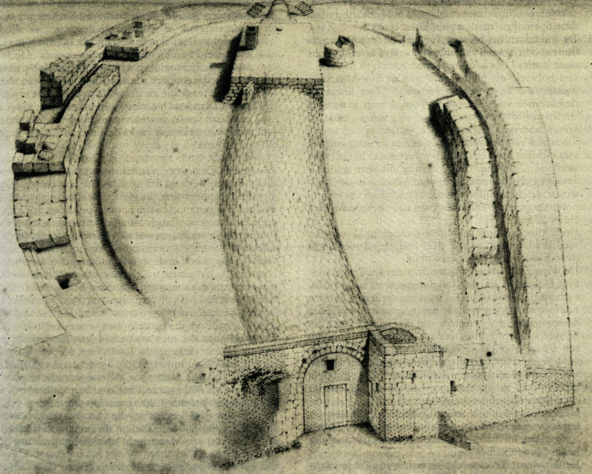 View of the fortifications near Sint-Maartenspoort, the northeastern city gate of the Maastricht suburb Wyck. Drawing by Jan Brabant (1806-1886).